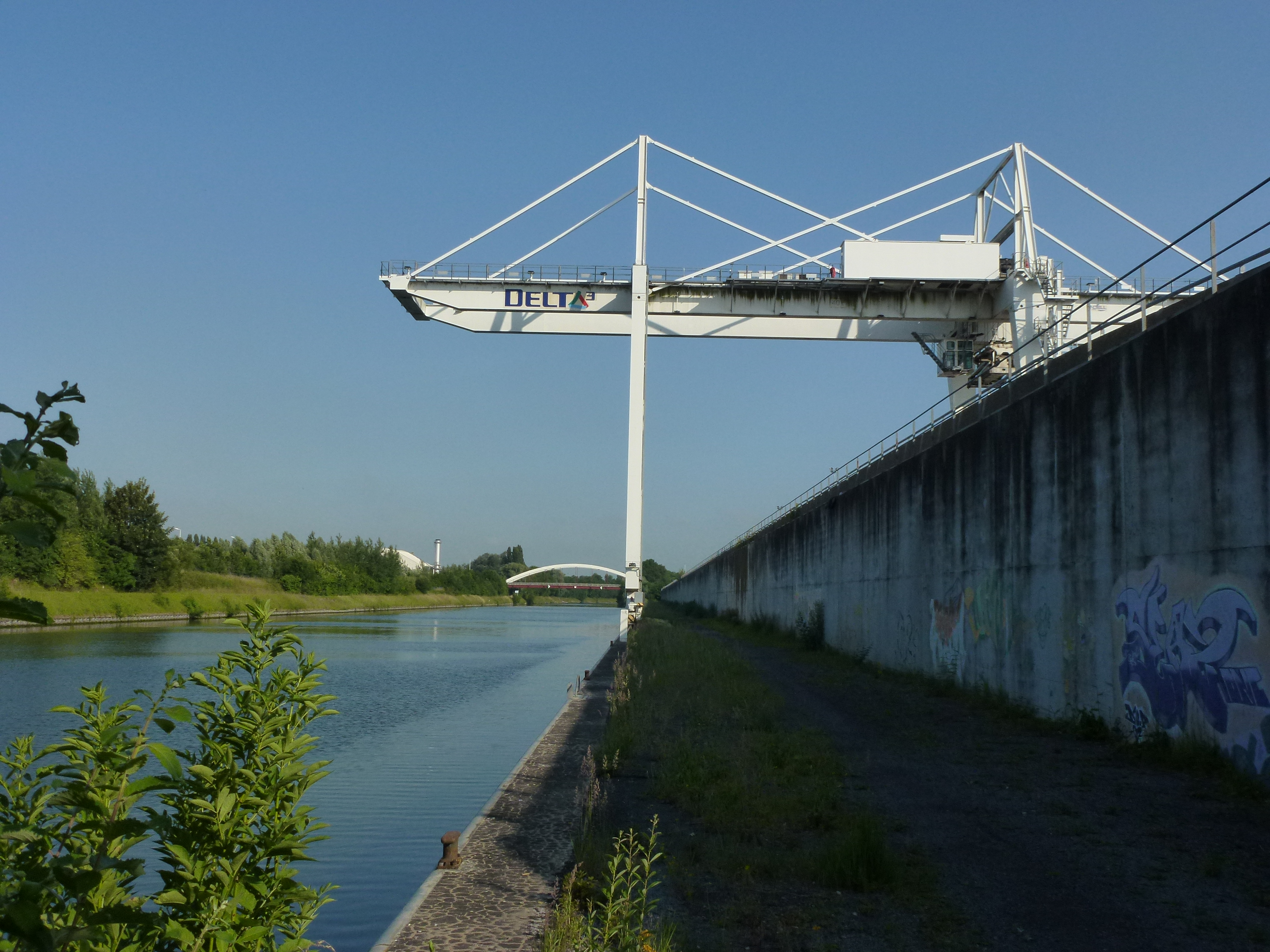 Dourges (Pas-de-Calais, Fr) Canal de la Deûle, cotê zone industrielle